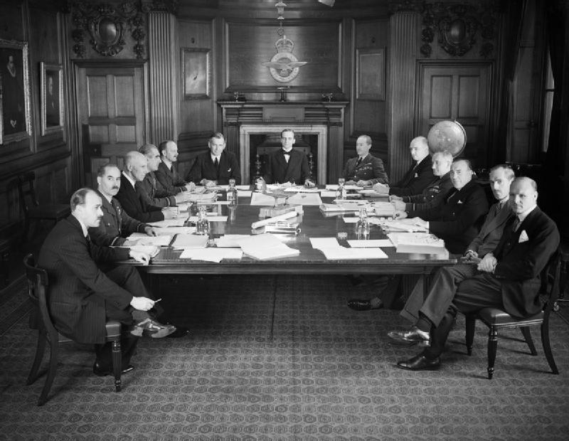 Photograph of the Air Council in session in the Council Chamber at Adastral House, London. Left to right: Unknown Air Vice-Marshal A G R Garrod Sir Harold G Howitt (Additional Member) Air Marshal Sir Christopher L Courtney (Air Member for Supply & Organisation) Air Marshal E L Gossage (Air Member for Personnel) Captain H H Balfour (Under Secretary of State for Air & Vice President of the Air Council) Rt. Hon. Sir Archibald Sinclair (Secretary of State for Air & President of the Air Council) Air Chief Marshal Sir Cyril Newall (Chief of the Air Staff) Sir Arthur Street (Permanent Under Secretary of State for Air) Air Chief Marshal Sir Wilfred R Freeman (Air Member for Development & Production) Sir Charles Craven (Civil Member for Development & Production) Flight-Lieutenant W W Wakefield (Parliamentary Private Secretary to the Parliamentary Under Secretary of State for Air) Unknown